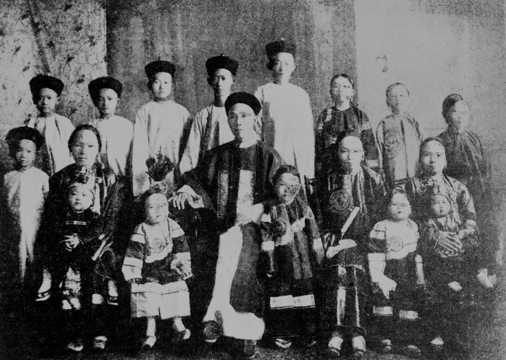 Creator: Taylor, A. L. Description: Kwong Sue Duk, a Chinese immigrant living in Cairns, photographed with his three wives and fourteen children in 1904. They are all dressed in traditional Chinese costume. Location: Cairns, Queensland; Lat/long: -16.92646,145.77597 View this photo at the State Library of Queensland: Information about State Library of Queensland’s collection